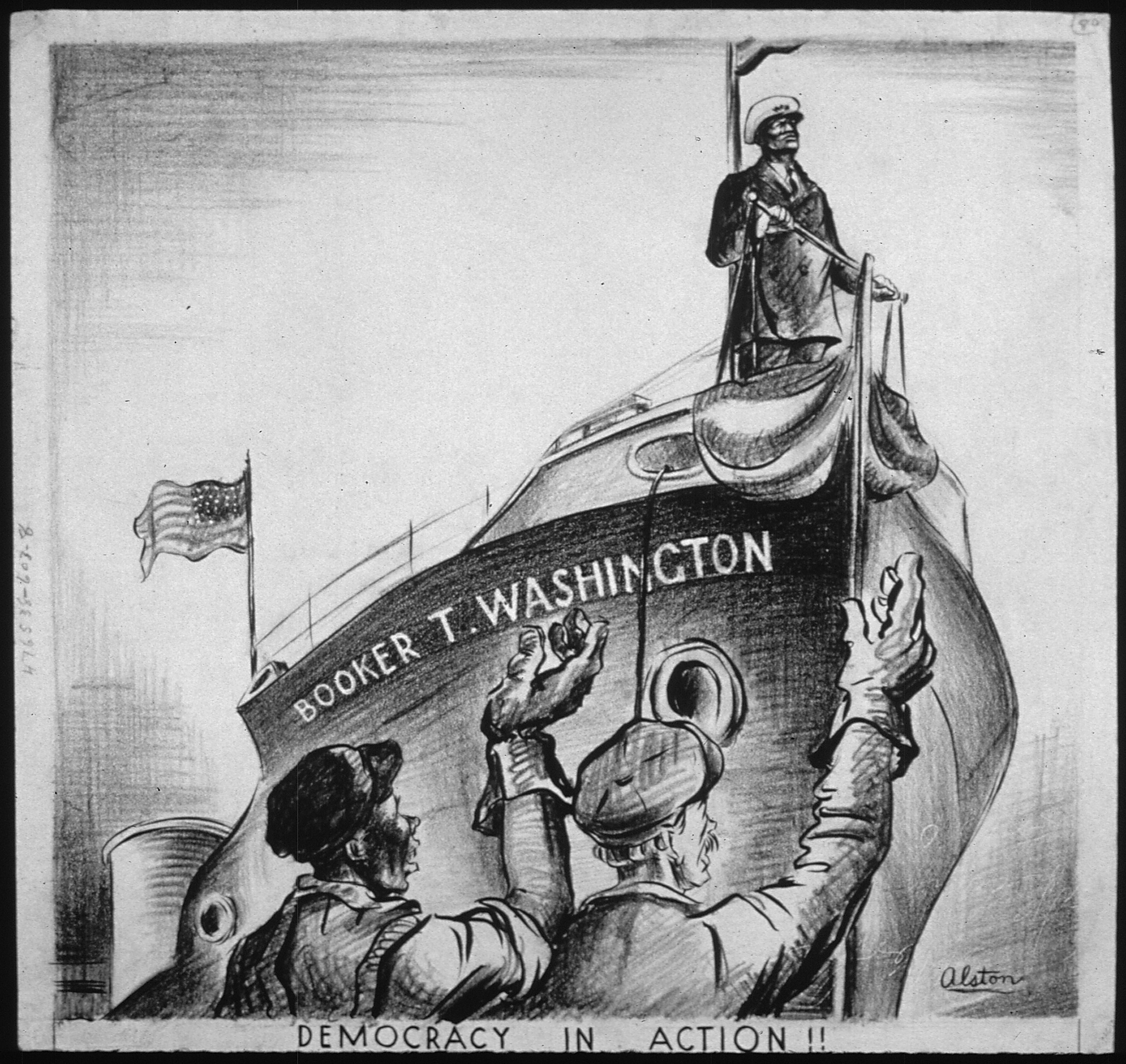 Scope and content: Booker T. Washington Liberty Ship.